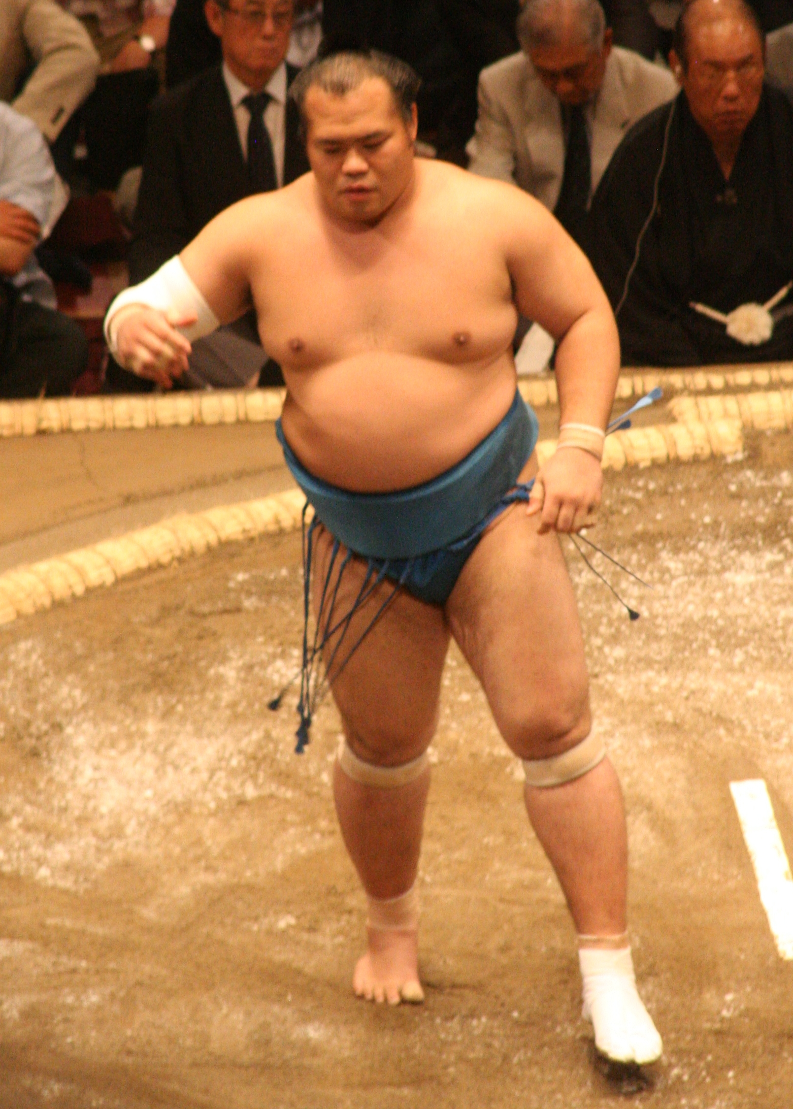 First day of 2009 May Sumo Tournament in Tokyo, Japan - Chiyohakuho